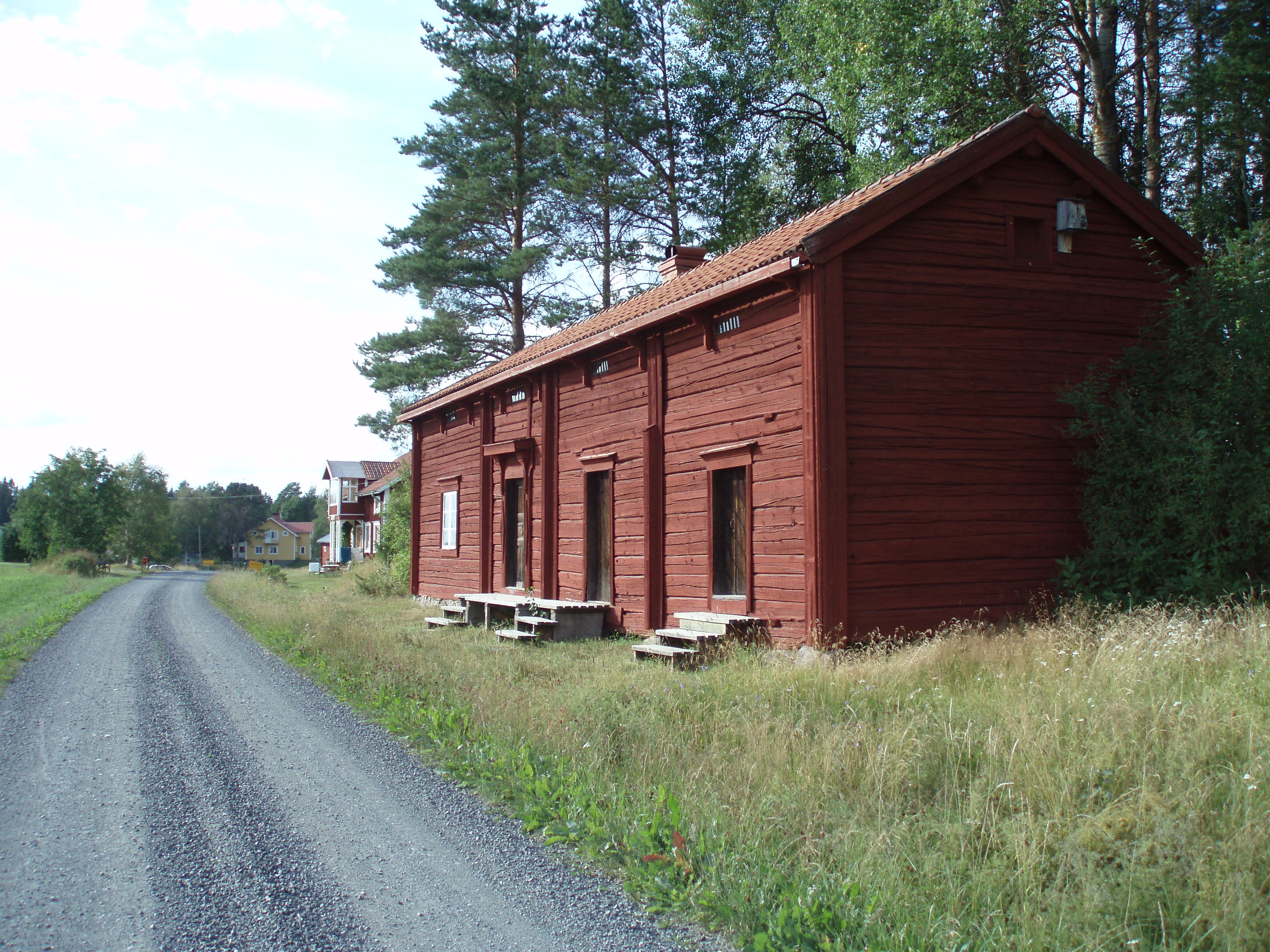 Nyland, Strömsund municipality, Sweden. Photo of the village, showing an old 'bryggstu' from the 1870s in the front. Photo taken in aug. 2006 by me, User:Cucumber.